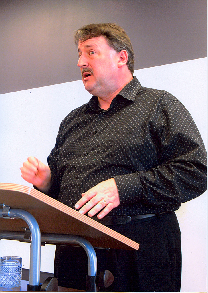 New Zealand political commentator Chris Trotter. Taken during his address to the Alliance Party conference in October 2007.